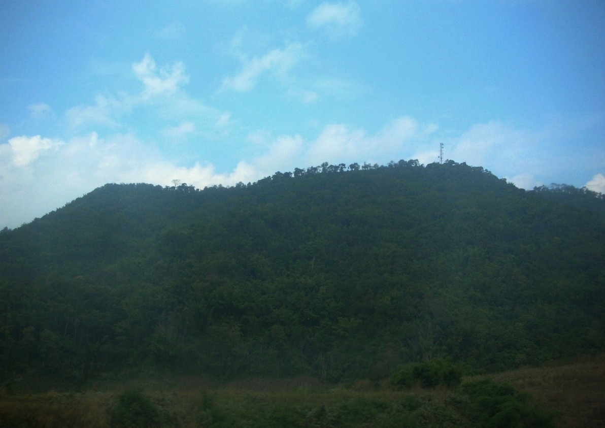 Phu Thap Buek, the highest mountain of the Phetchabun Range